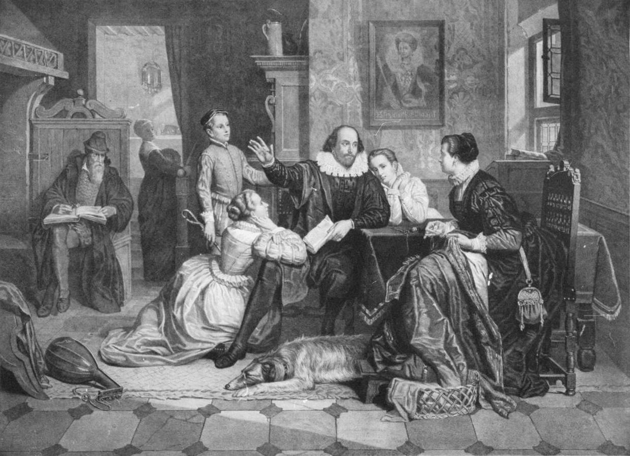 illustration of William Shakespeare reciting his play Hamlet to his family. His wife, Anne Hathaway, is sitting in the chair on the right; his son Hamnet is behind him on the left; his two daughters Susanna and Judith are on the right and left of him. (Hamnet&Judith are twins)